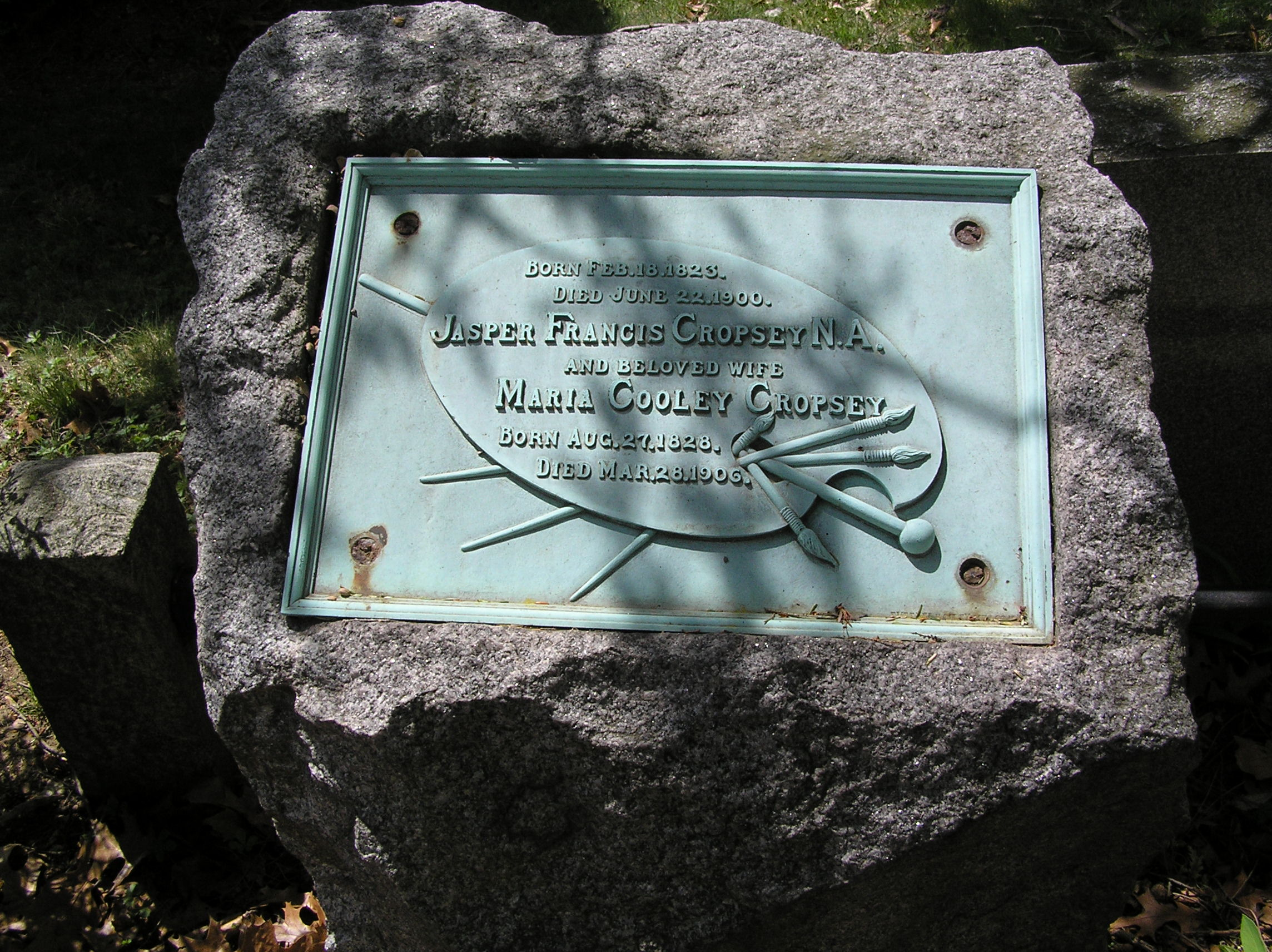 The monument of Jasper Francis Cropsey in Sleepy Hollow Cemetery